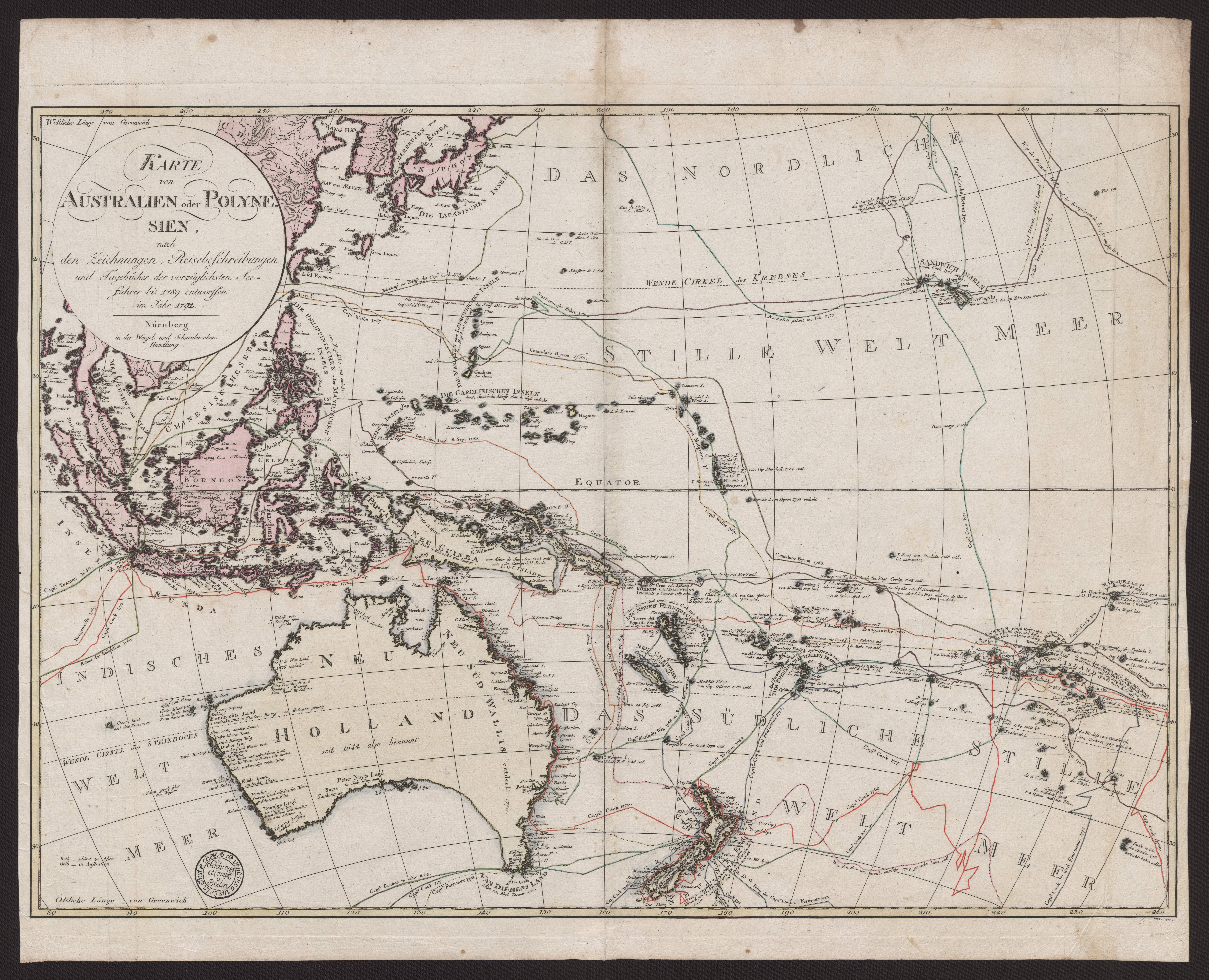 1795 German map of Oceania (here called "Australia, or Polynesia") according to the travel accounts of seafarers from 1789 to 1795. The map shows Australia, the S.W. Pacific, and Indonesia ; Australia is called New Holland with Tasmania joined to the mainland. It also shows the tracks of Tasman, Cook, Furneaux, Carteret, Wallis, Bougainville, Byron, Marshall and Shortland, Sarville, Nordwarts, and Scarborough Printed in Nuremberg. Library catalogue permalink